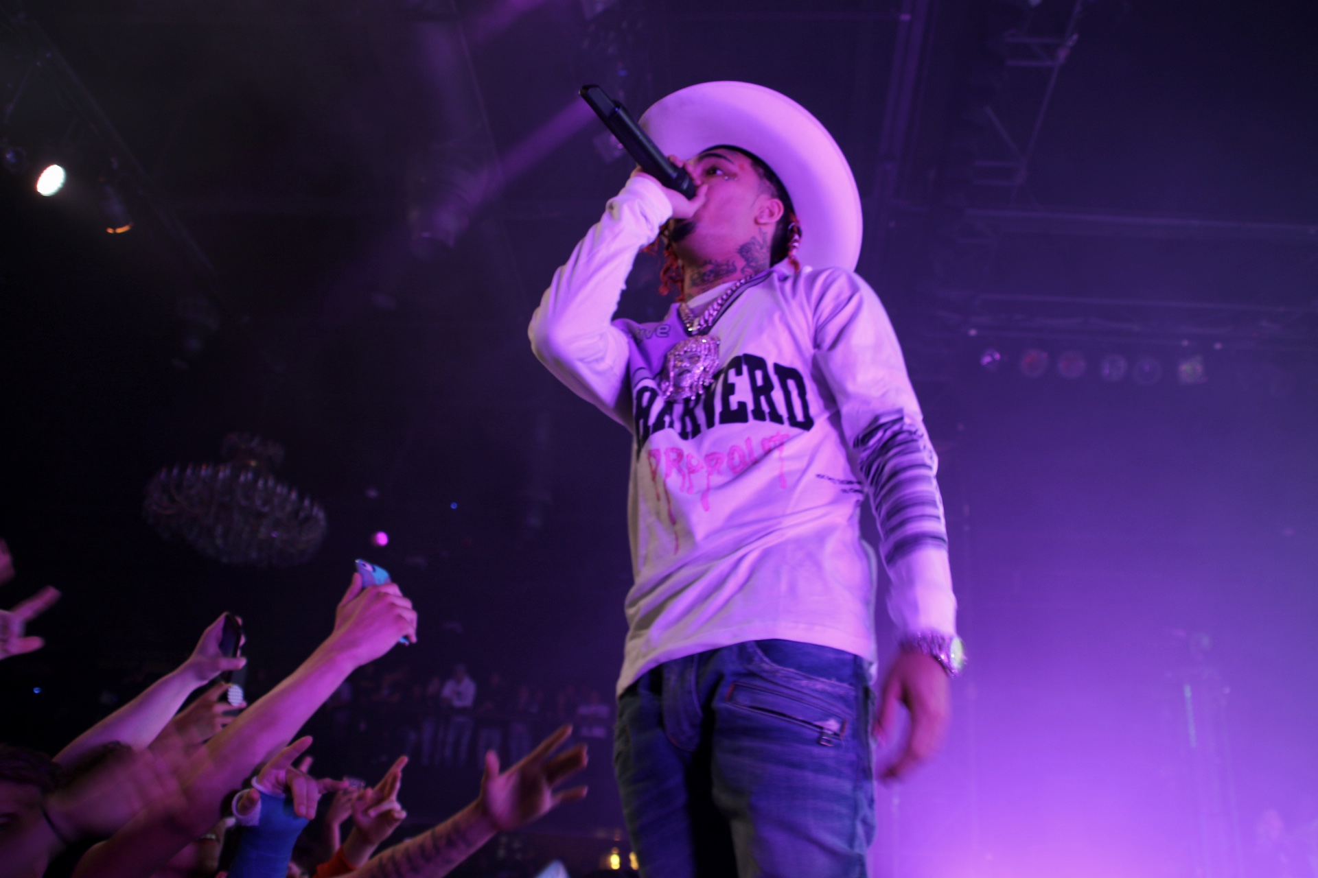 Lil Pump performing at the Fillmore Auditorium in May 2019